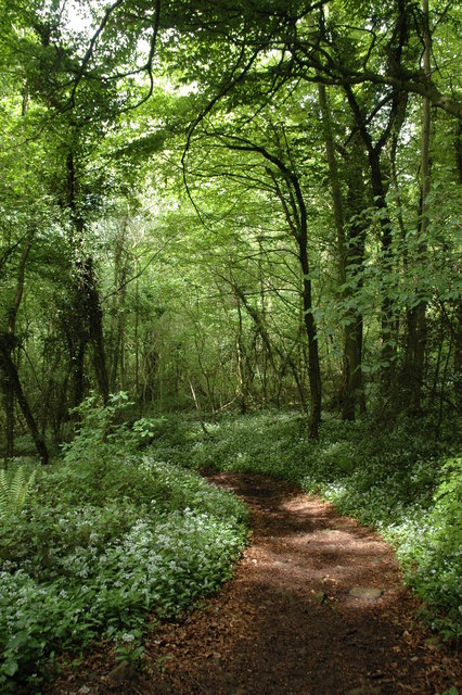 Footpath through woodland to Tintern Just below its junction with Offa's Dyke Path in Lippets Grove this path descends through woodland to Tintern.